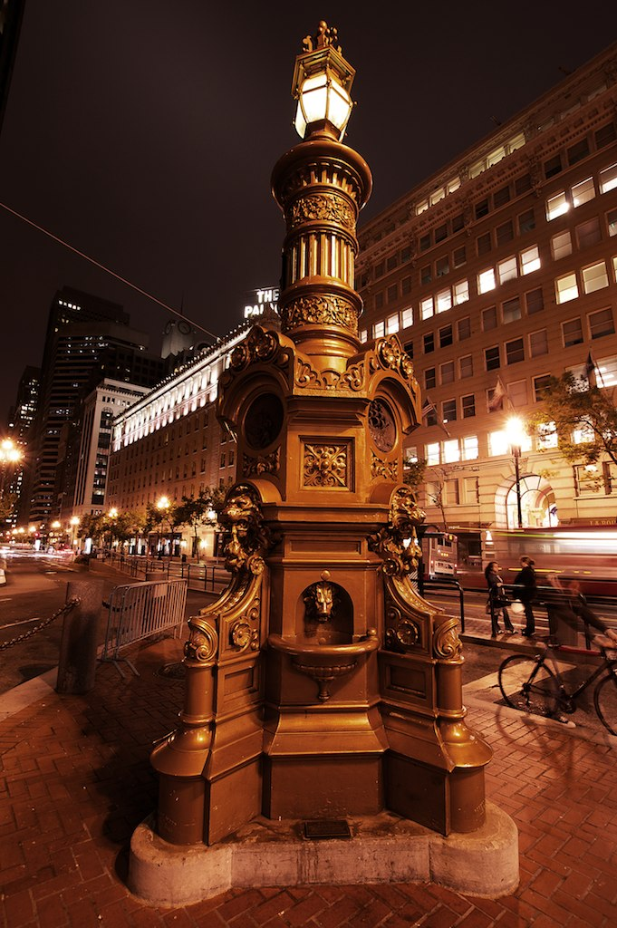 Lotta Crabtree Fountain, (sculpture). Luisa Tetrazzini (1874-1940) Plaque on Lotta's Fountain. Dates: 1875. Dedicated Sept. 9, 1875. Plaque installed 1911. Column added 1916. Relocated 1974.